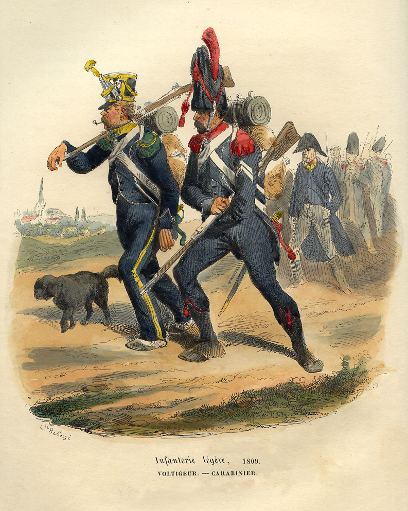 Light Infantry: Voltigeur and Carabinier from the Grande Armée. From book of P.-M. Laurent de L`Ardeche «Histoire de Napoleon», 1843